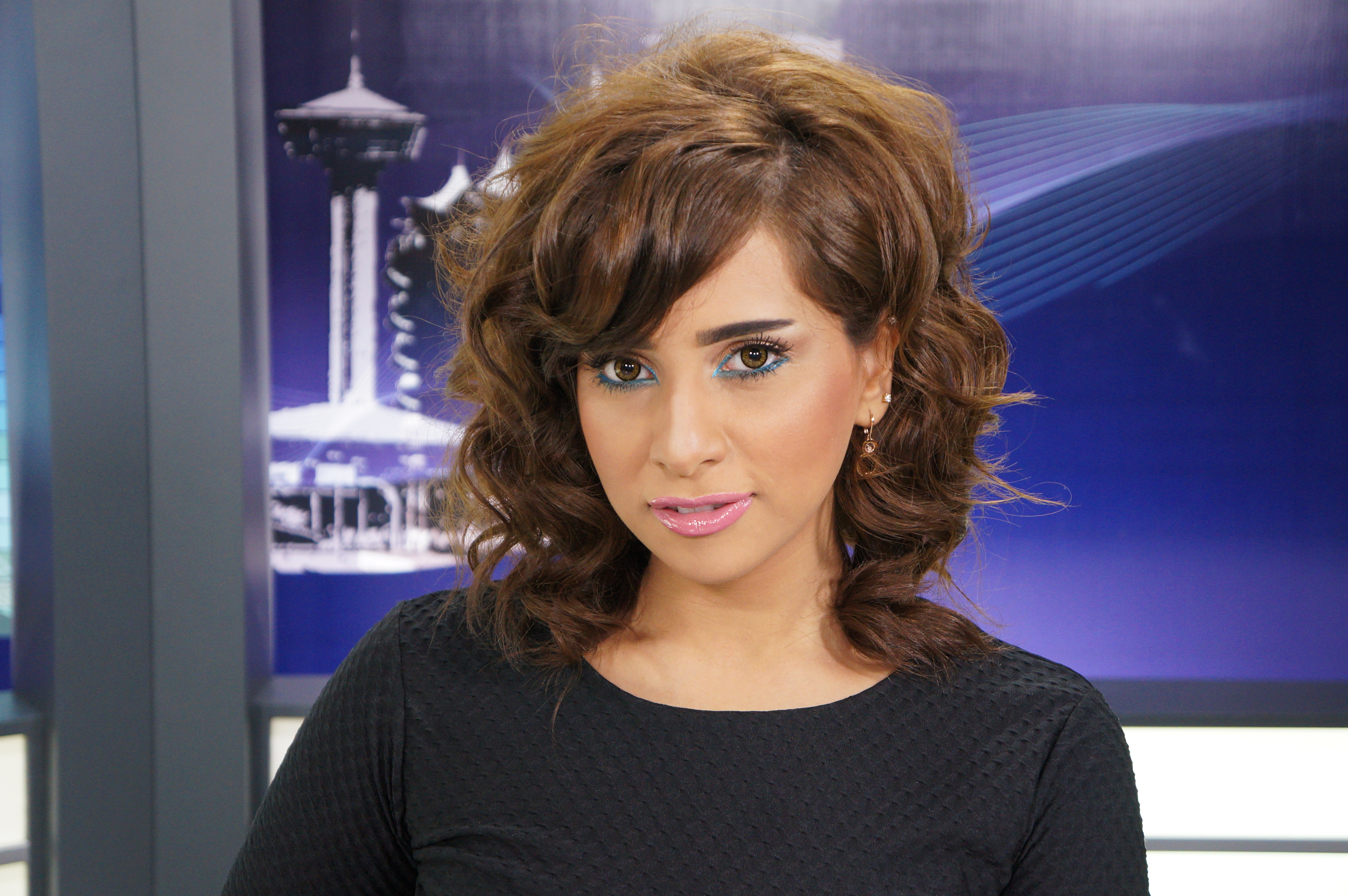 mariam bukamal in news canter 2012